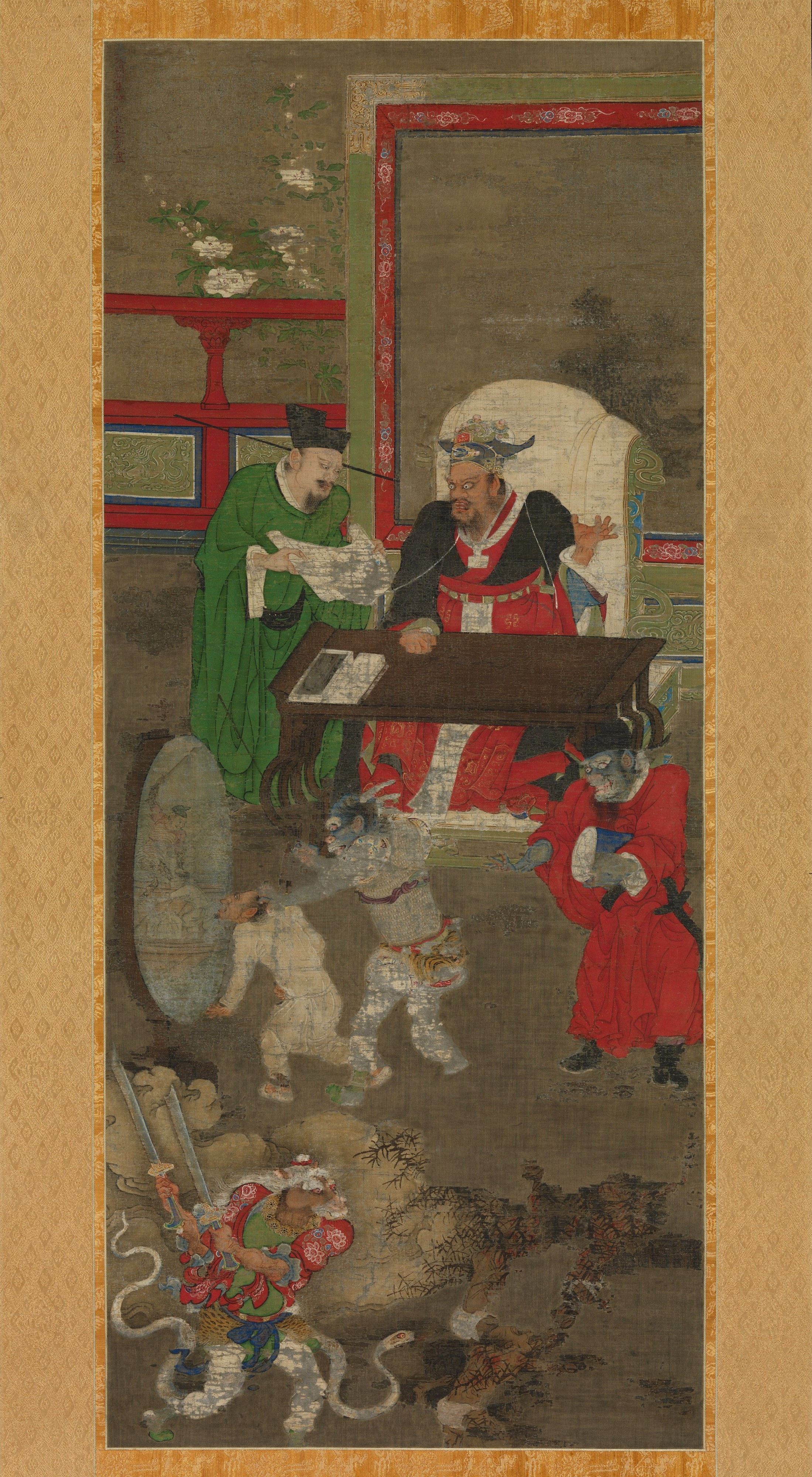 Jin Chushi. Yama the Fifth King of Hell, late 12 century. Metmuseum